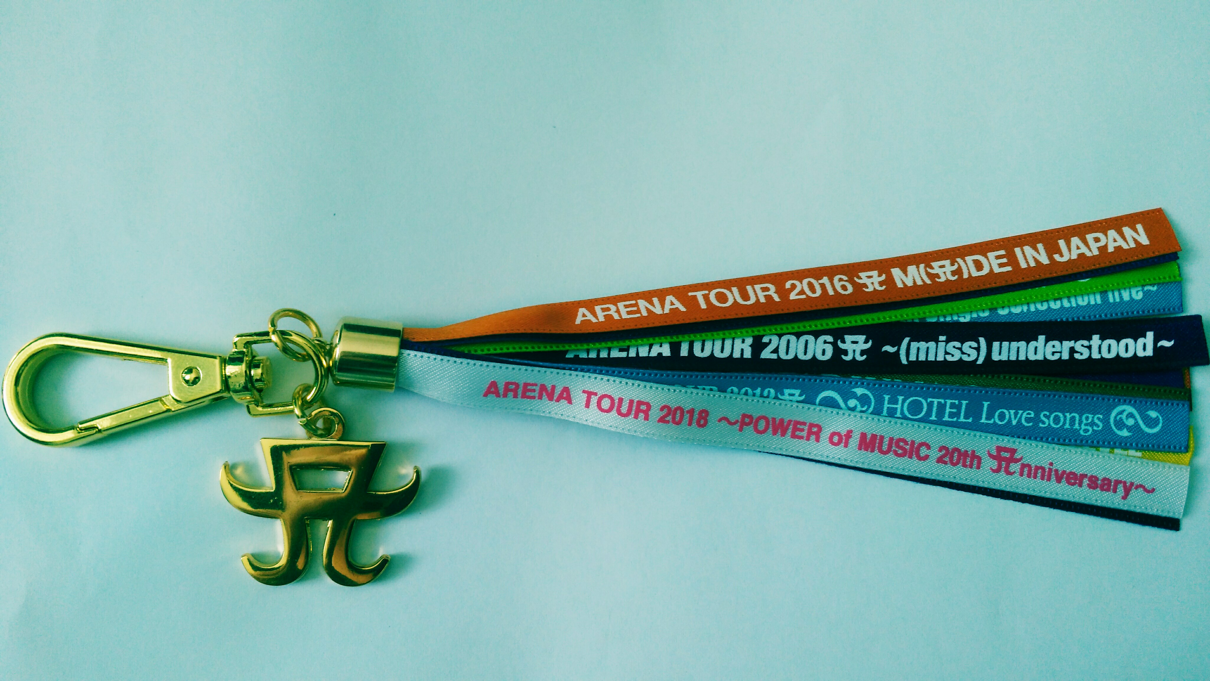 Ribbon key holder created for the "ayumi hamasaki ARENA TOUR 2018 〜POWER of MUSIC 20th Anniversary〜" tour